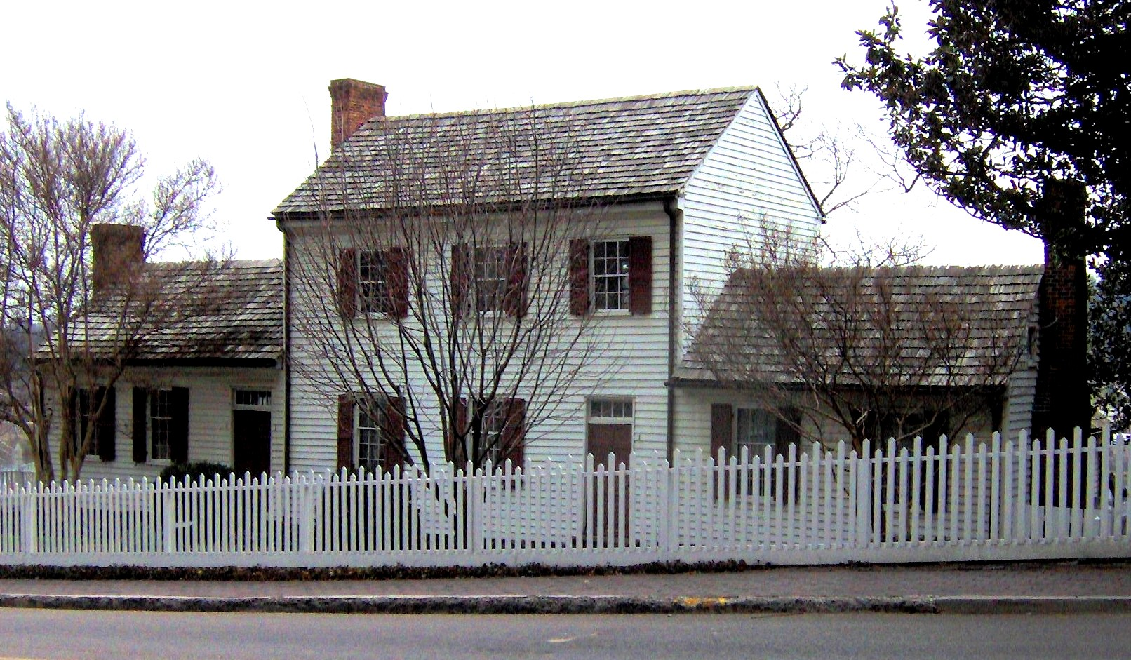 The front facade of Blount Mansion, viewed from across West Hill Avenue in Knoxville, in the U.S. state of Tennessee.